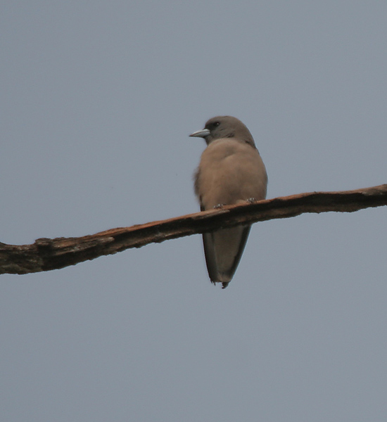 Ashy Woodswallow Artamus fuscus at Jayanti in Buxa Tiger Reserve in Jalpaiguri district of West Bengal, India.